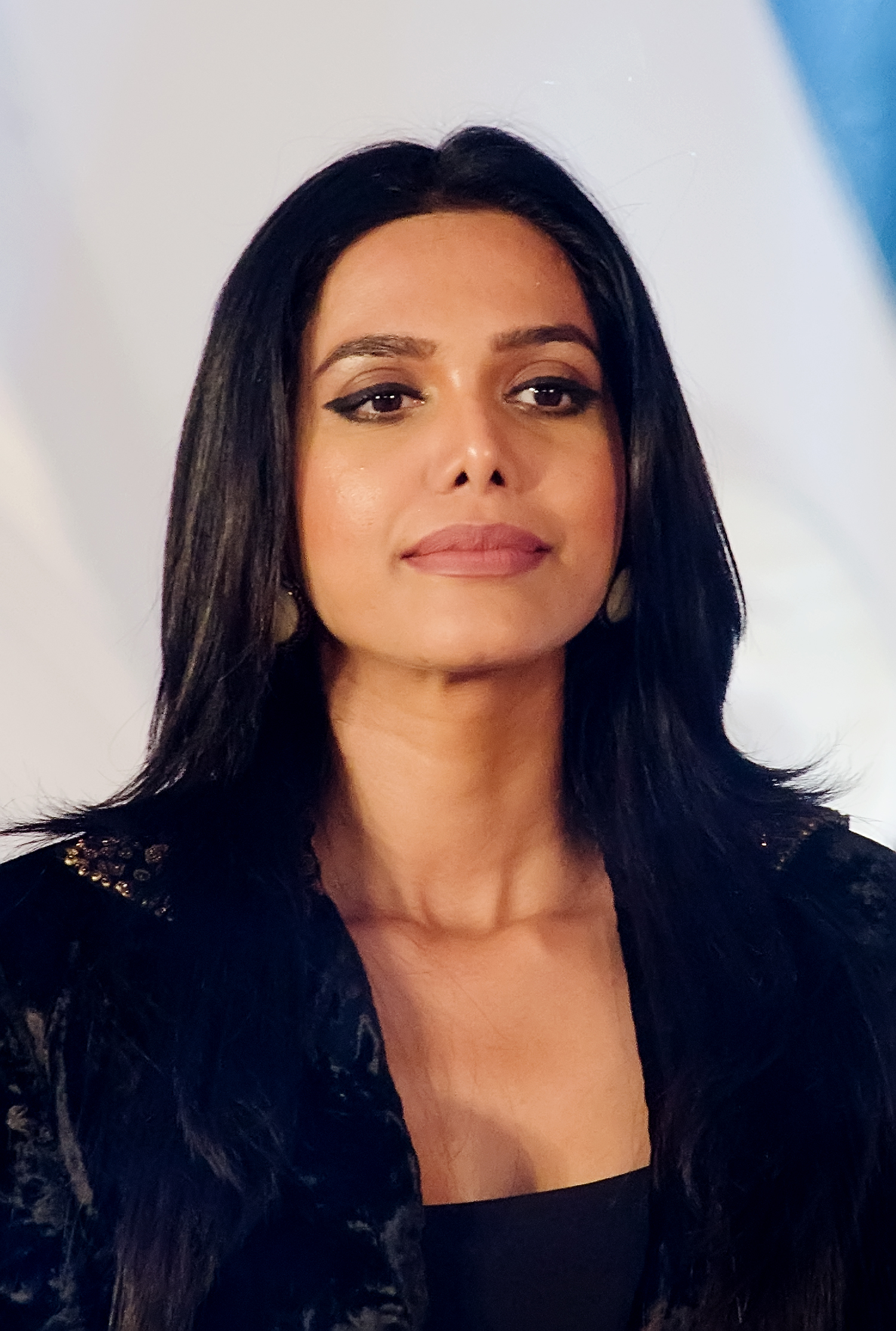 Natasha Suri Portrait